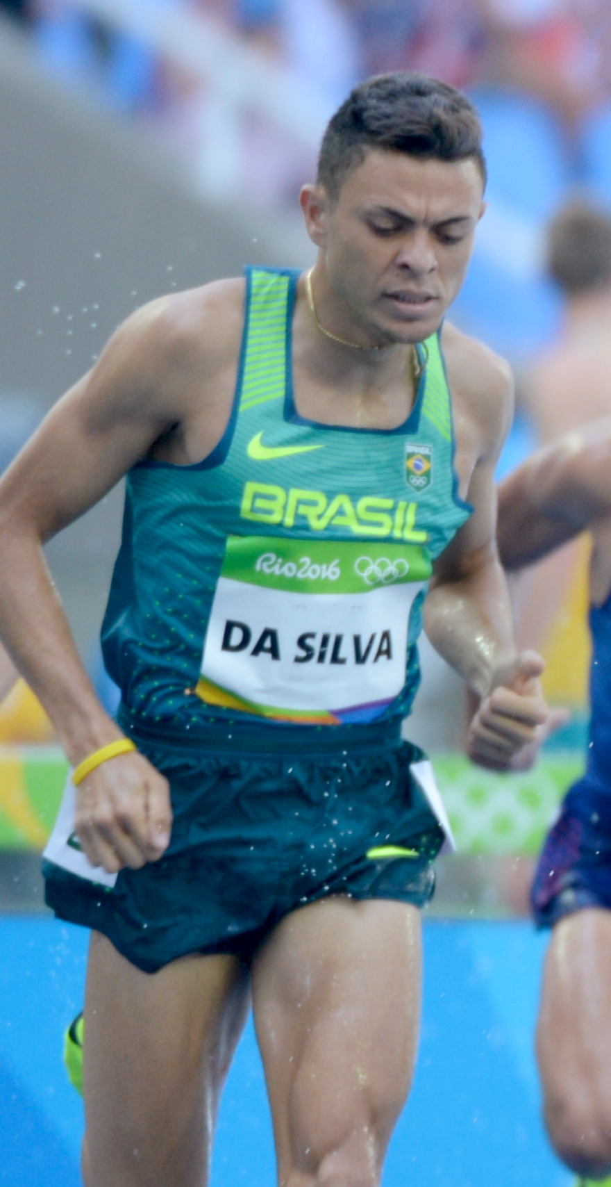 Altobeli da Silva in the men's 3,000-meter steeplechase on Aug. 17 at the 2016 Rio Olympic Games in Rio de Janeiro. U.S. Army photo by Tim Hipps, IMCOM Public Affairs #SoldierOlympians #ArmyOlympians #ArmyTeam #GoArmy #TeamUSA #ArmyStrong #RoadToRio